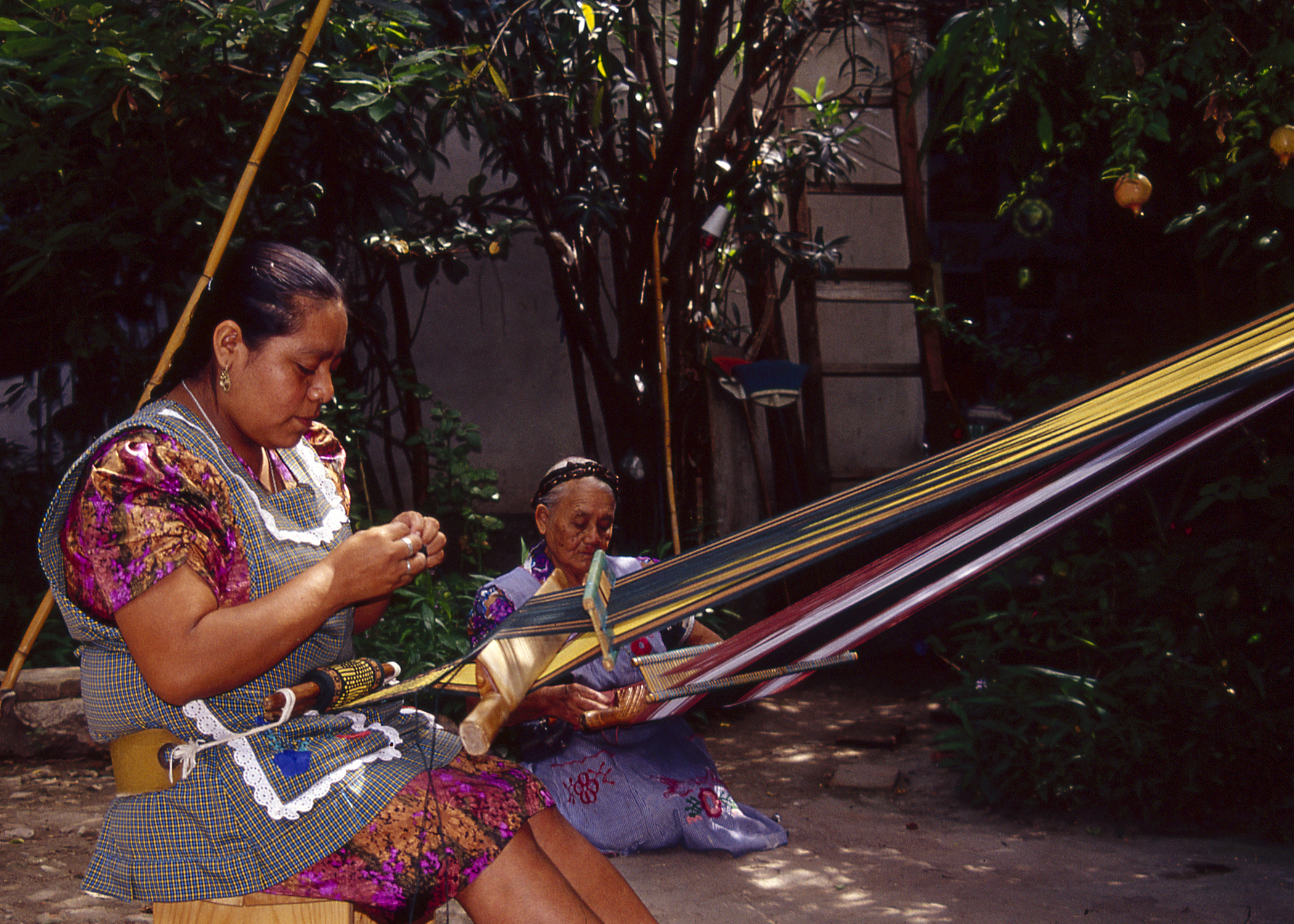 Patricia Hernandez Chavez working with her mother Cirila Chavez Hernandez on backstrap looms in Santo Tomas Jalietza, Oaxaca